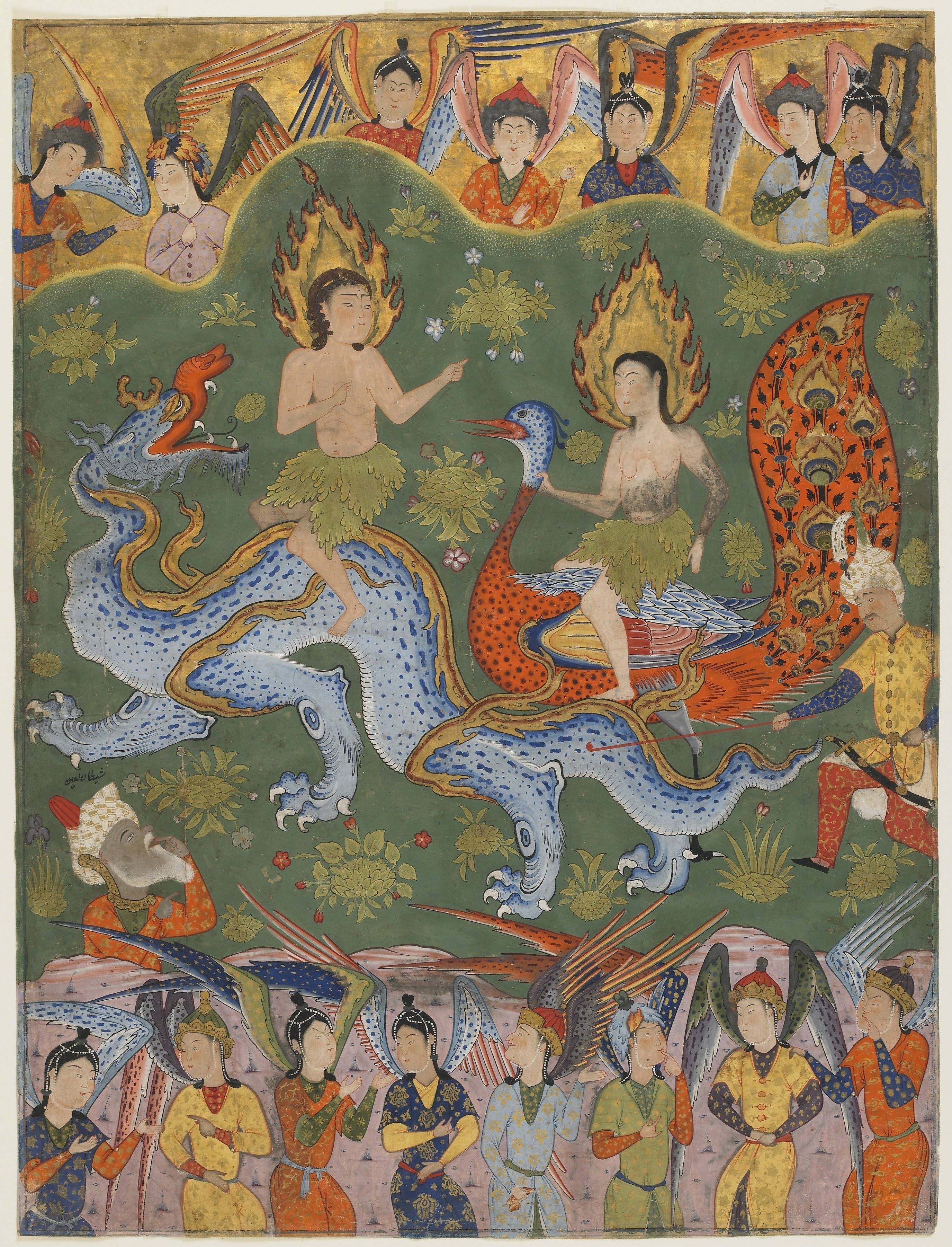 This painting is coming from a copy of the Fālnāmeh (Book of Omens) ascribed to Ja´far al-Sādiq.